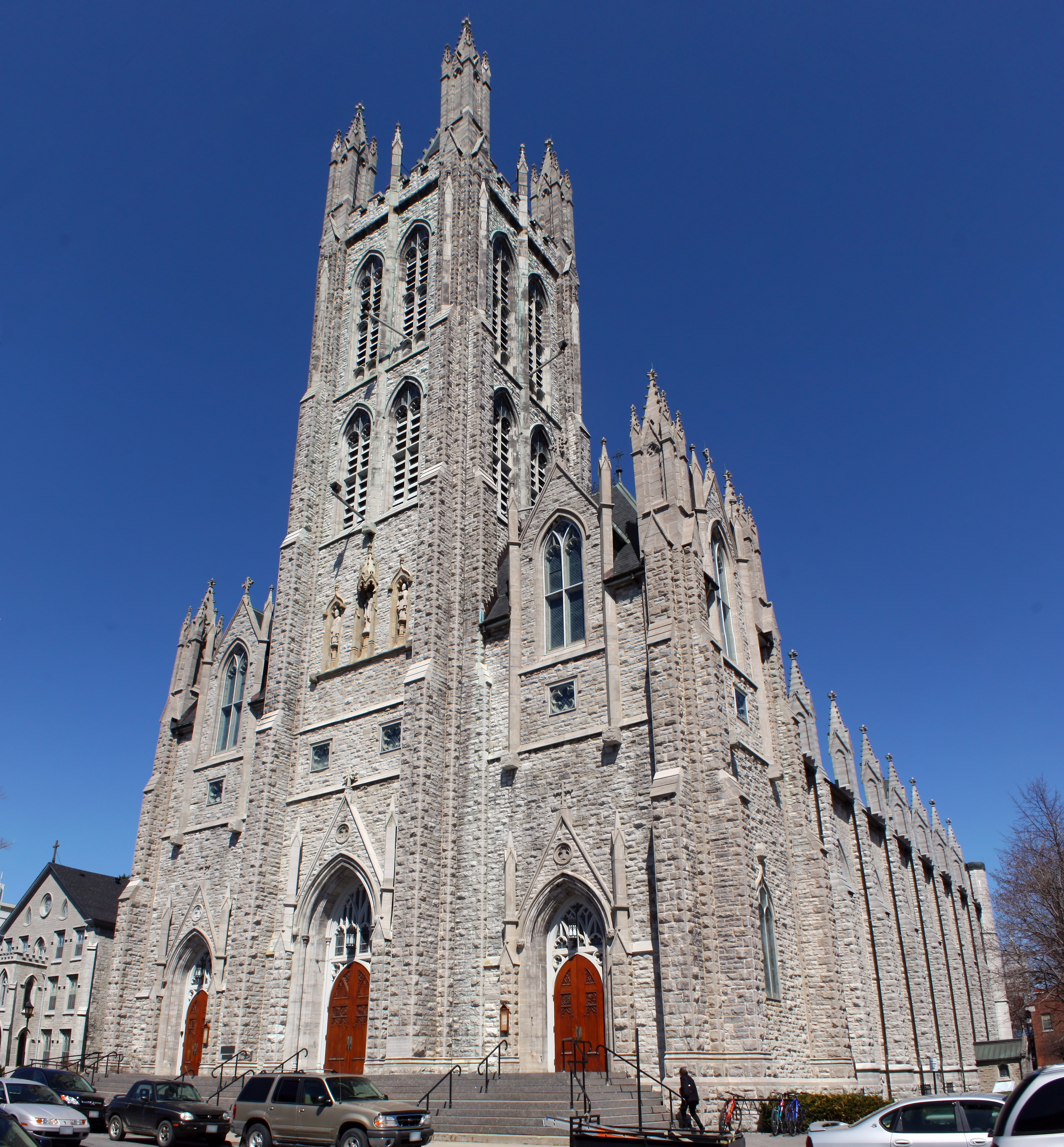 St. Mary's Cathedral (Cathedral of Saint Mary of the Immaculate Conception) in Kingston Ontario.